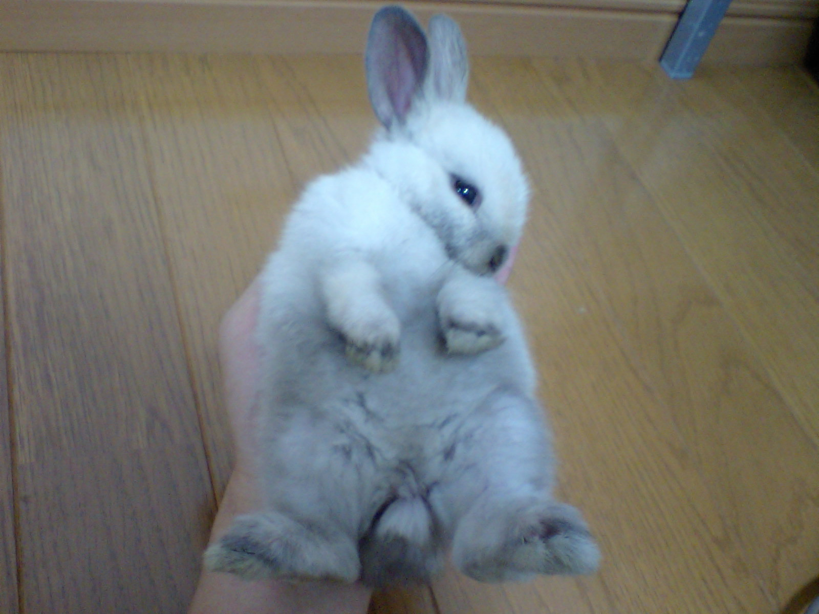 Abdomen of a rabbit